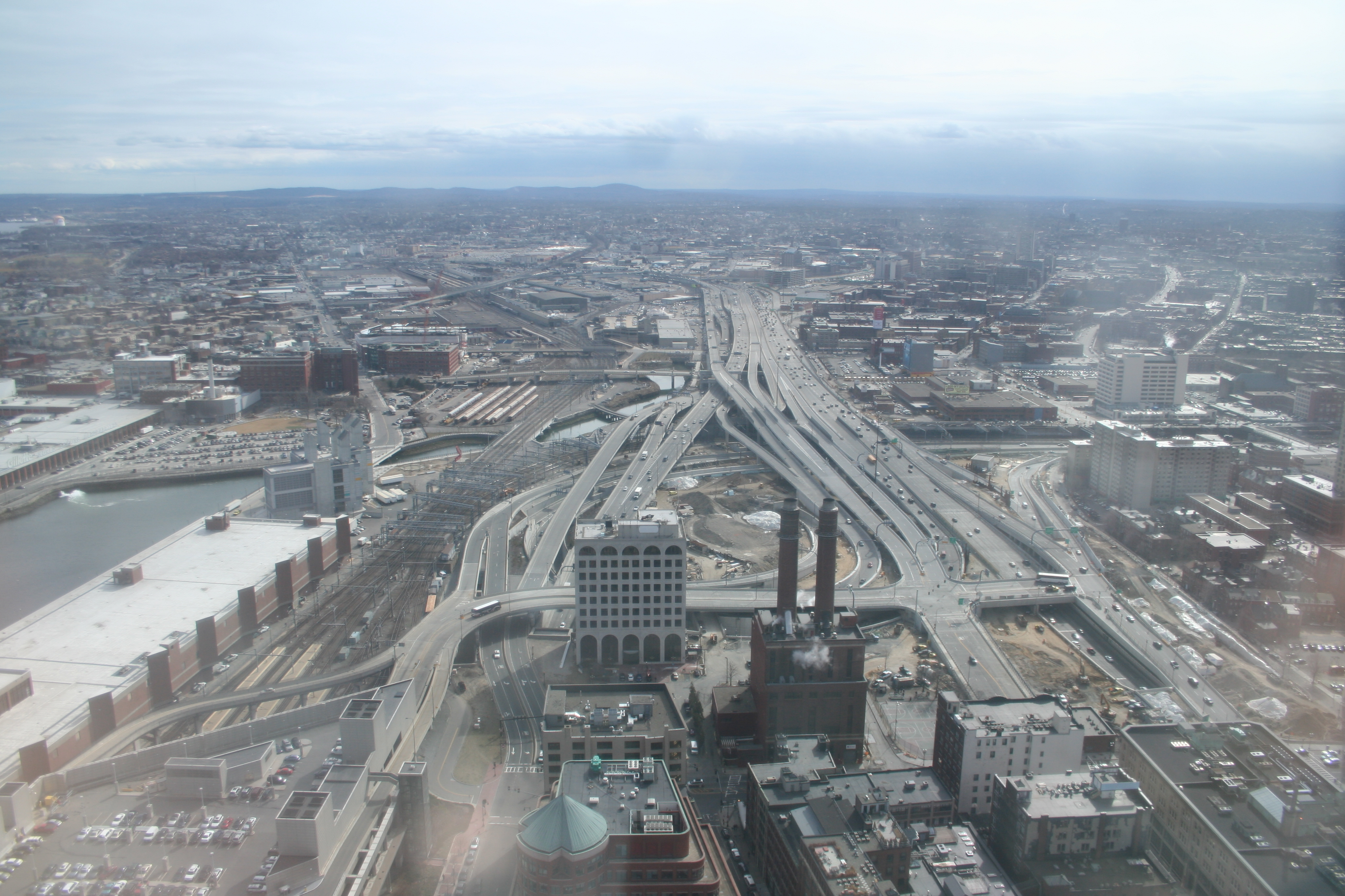 This photograph shows the South Bay Interchange in Boston. Massachusetts. This massive structure includes 28 distinct traffic movements, connecting the Massachusetts Turnpike, the Southeast Expressway, Frontage Road, Albany Street, Atlantic Avenue, Kneeland Street, and other local roads. Notably, there is no movement from I-93 southbound to I-90 eastbound; traffic from the north is expected to use the Callahan Tunnel instead. Photo taken 2006-03-24 from the 44th floor transmitter room of One Financial Center in Boston's Financial District.